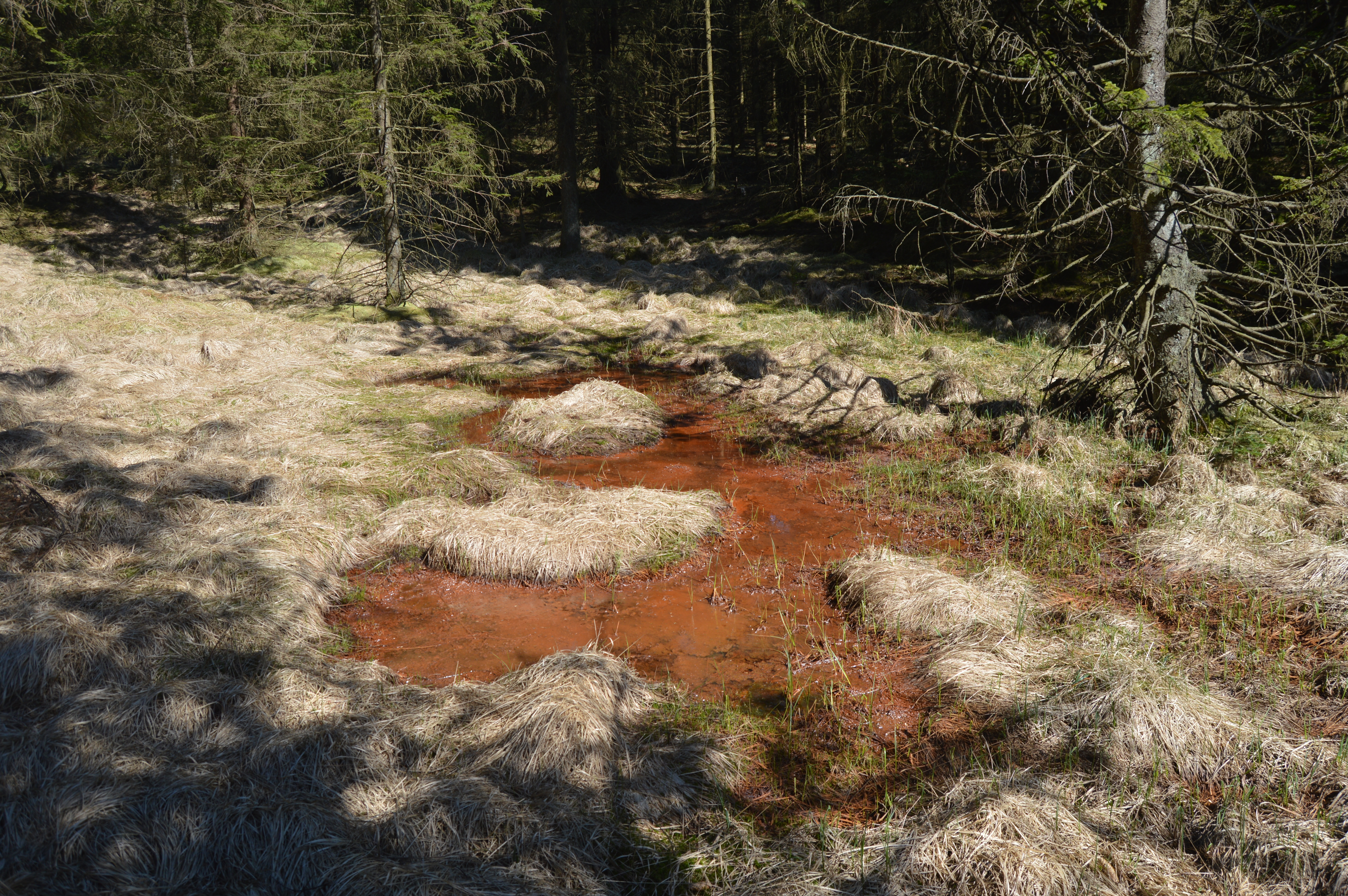 The Trou des Massotais ("Leprechaun Hole"), on the PLteau des Tailles in Belgium, an old gold mine digged by Celts; water full of iron on the "Noir Ru" river (aka Martin Moulin)